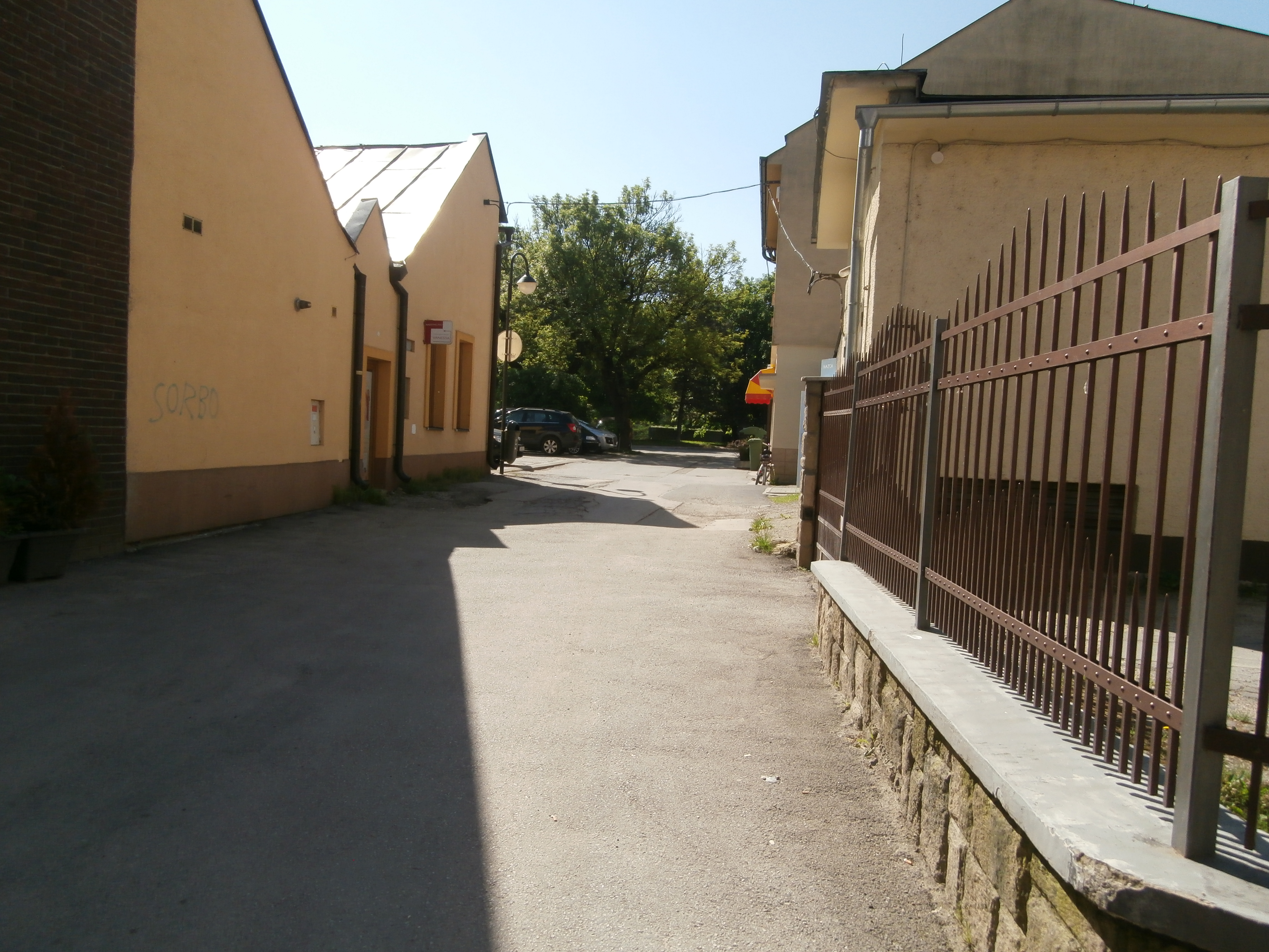 This is a street in Žilina.